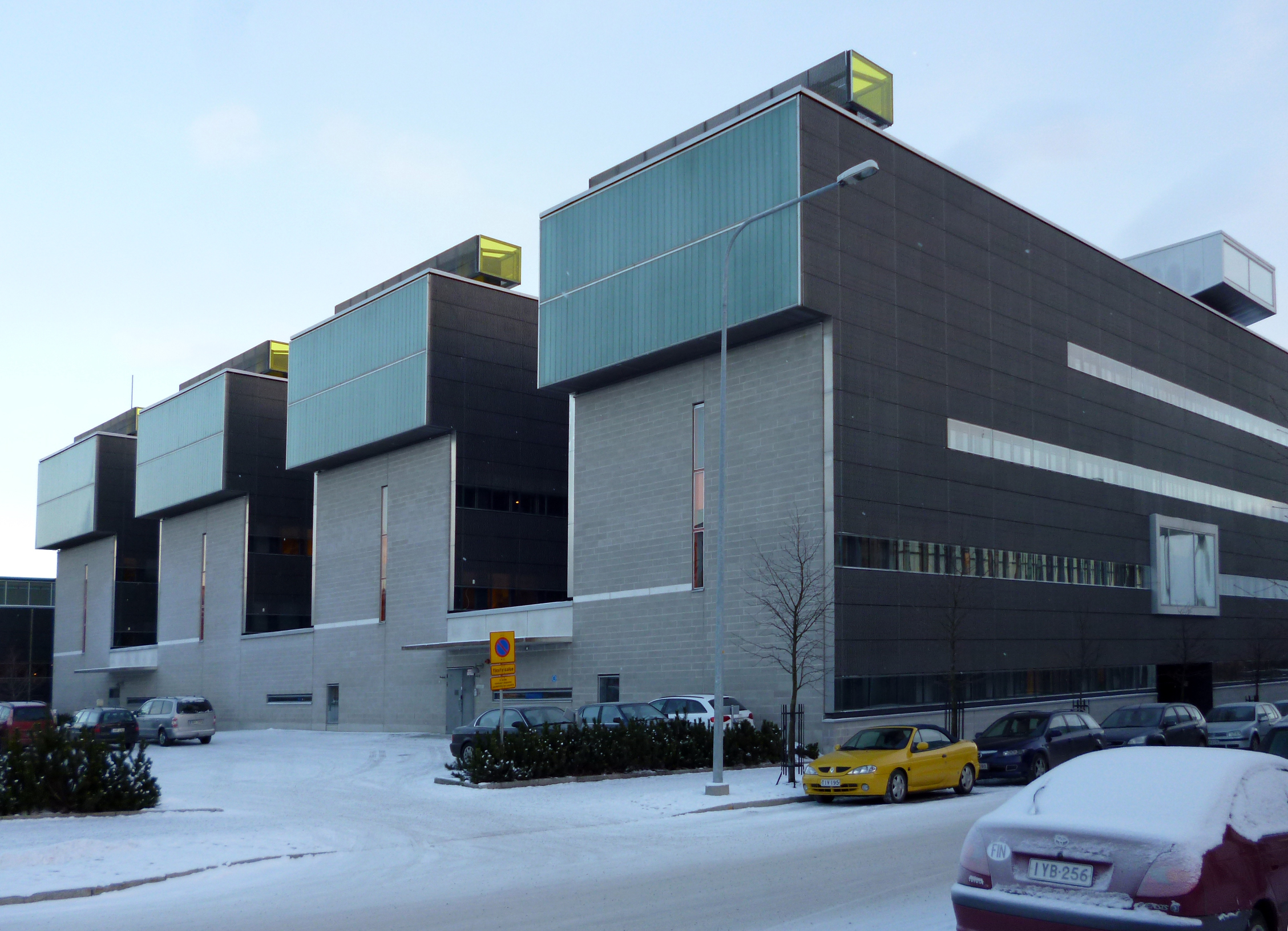 Exactum building, University of Helsinki, Finland, 2004, architects Lahdelma & Mahlamäki